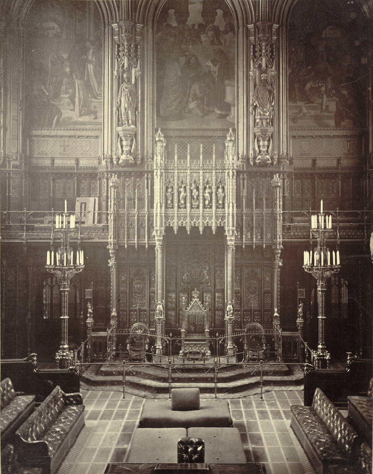 House of Lords, albumen print showing the Royal Throne and Canopy, located in the Lords Chamber of the Palace of Westminster in London, England. From this throne, the British monarch delivers the Royal Address at the annual State Opening of Parliament, describing the government's legislative agenda for the new parliamentary session.